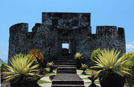 Fort Tolukko, a colonial fortification built on the Clove island of Ternate by the Spanish in 1611, later occupied by the Dutch and used as a royal residence by Ternate's Sultan.